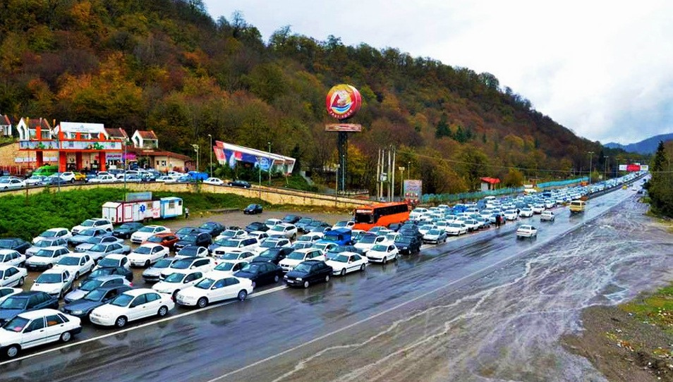 Haraz Road Iran